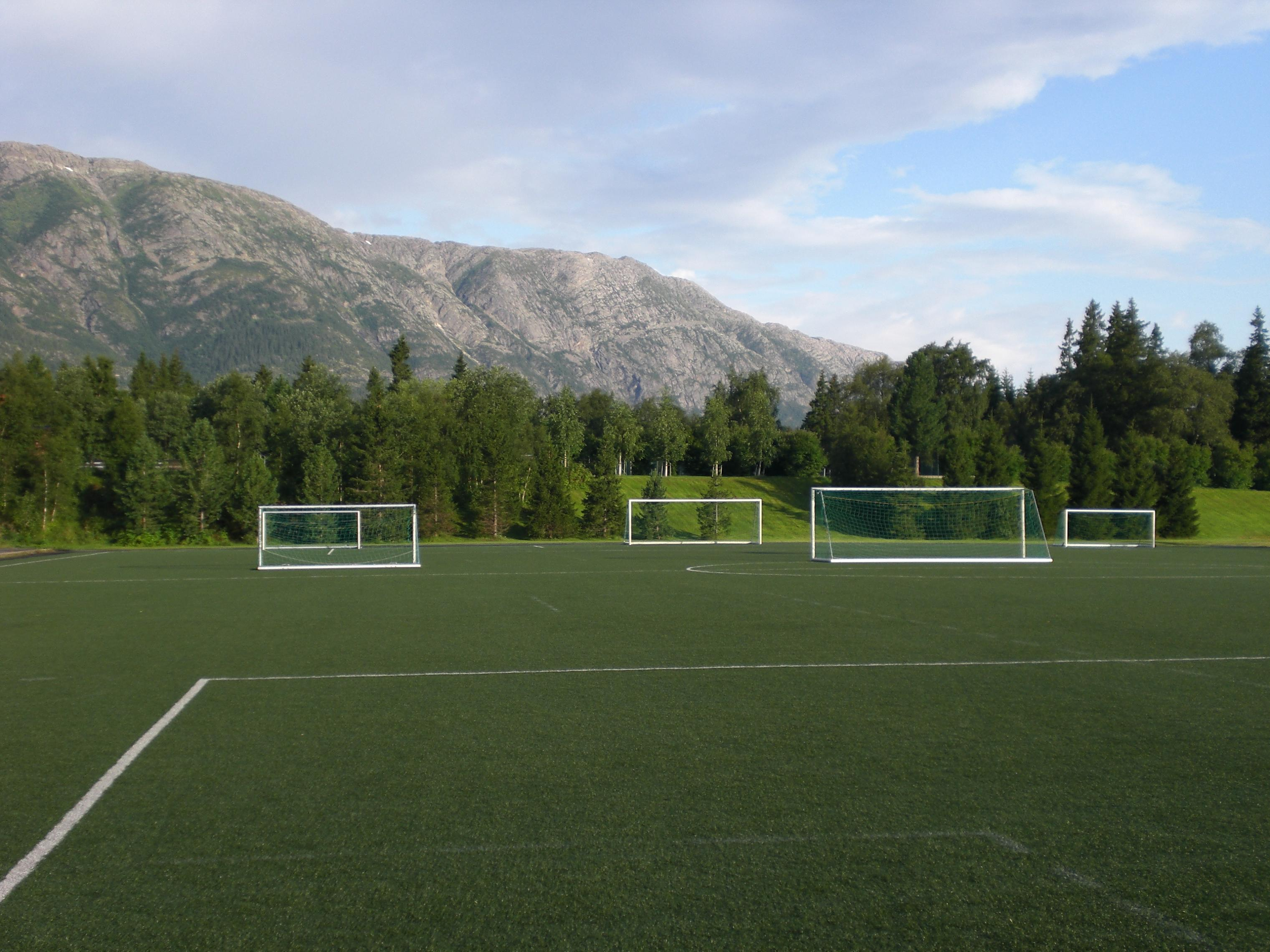 Kippermoen Idrettspark in Mosjøen, Norway. Football field (artificial grass).